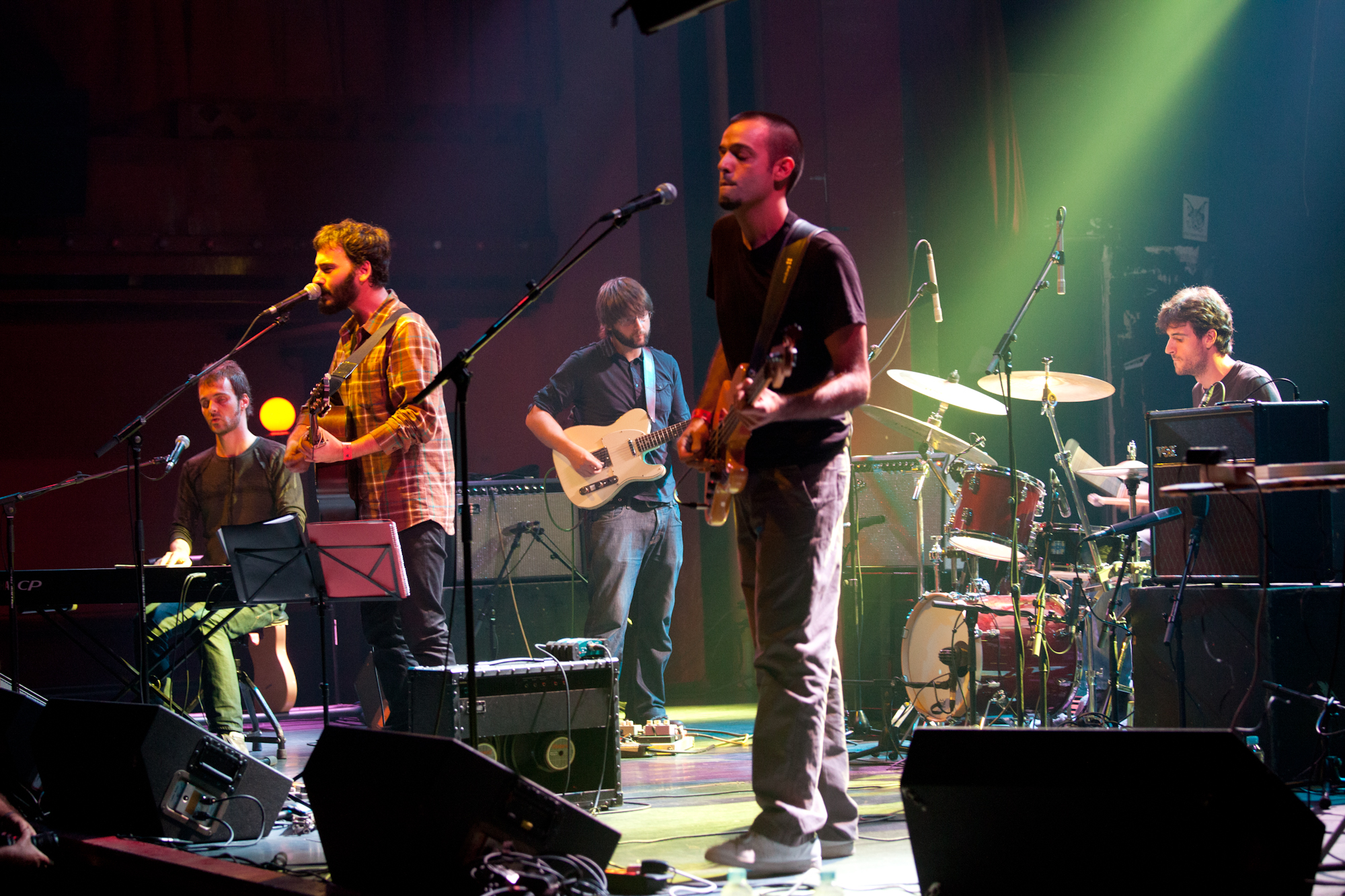 The New Raemon in concert in Barcelona, Spain.